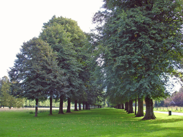 Marbury Country Park - lime avenue. Tree-lined avenue in Marbury Park, near Northwich, Cheshire